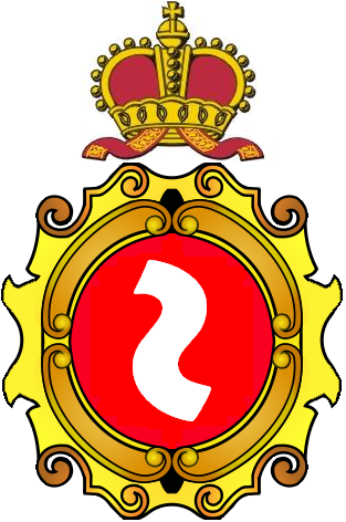 Old arms of Szydłowiec